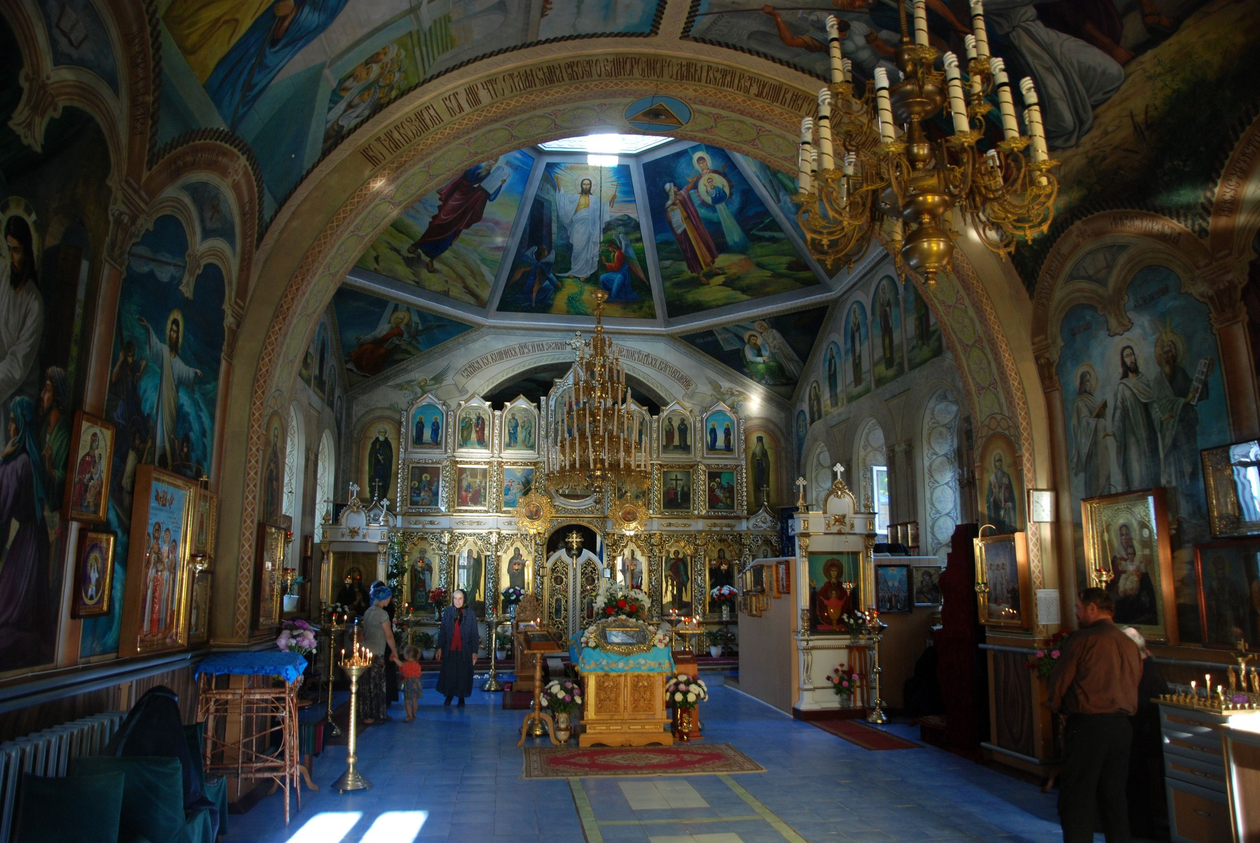 Călărășeuca monastery, main church